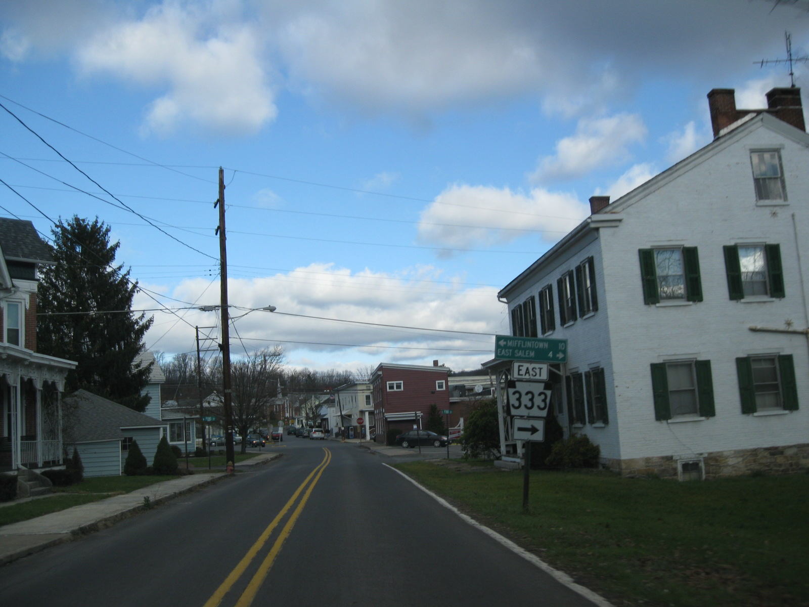 State Route 333 eastbound through the borough of Thompsontown, Pennsylvania.